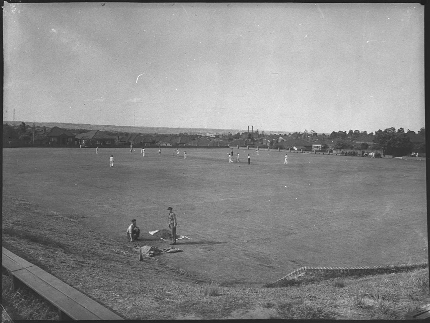 Playing fields of St. Patrick's College, Strathfield (Brother Coughlan, principal)